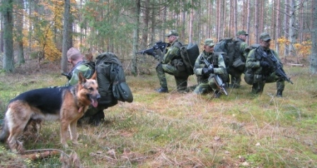 Flygbasjägarpatrull